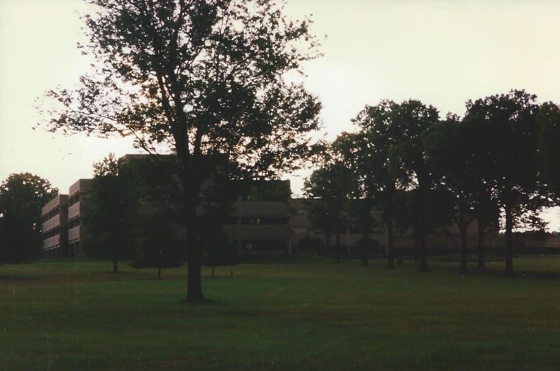 AT&T Laboratories – Research occupied part of this leased office facility on the campus of the Exxon Research and Engineering campus – Building 103 – at 180 Park Avenue, Florham Park, New Jersey. Here seen at dusk in August 1997, fairly soon after they moved into the building.